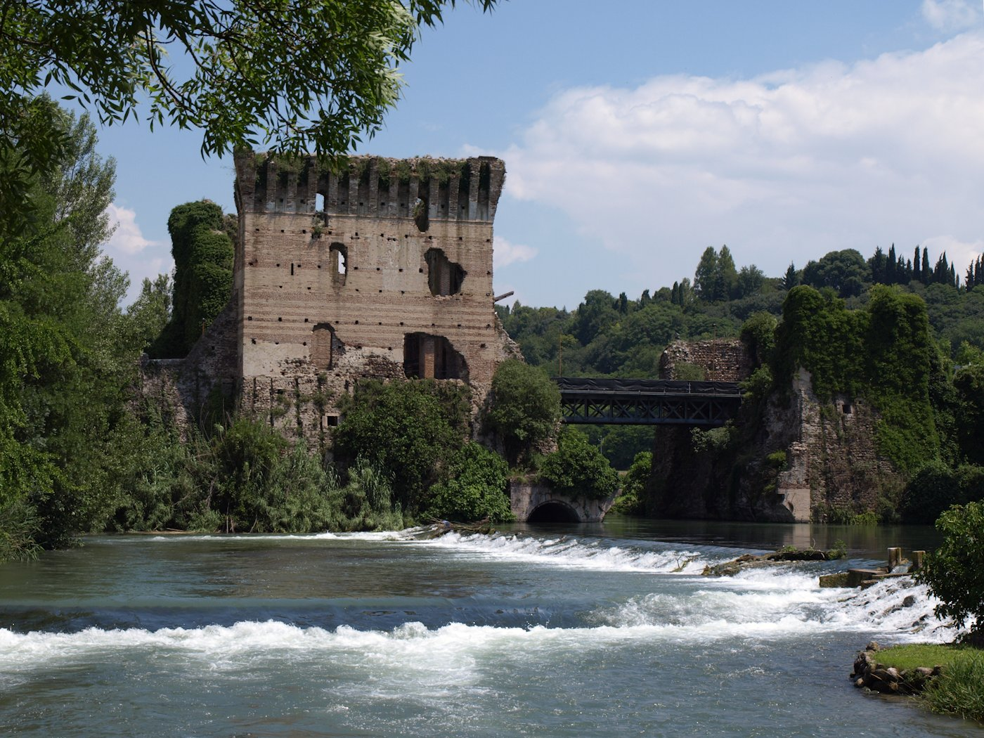 Valeggio sul Mincio (Veneto - Italien), Ponte Visconteo, photo 2011